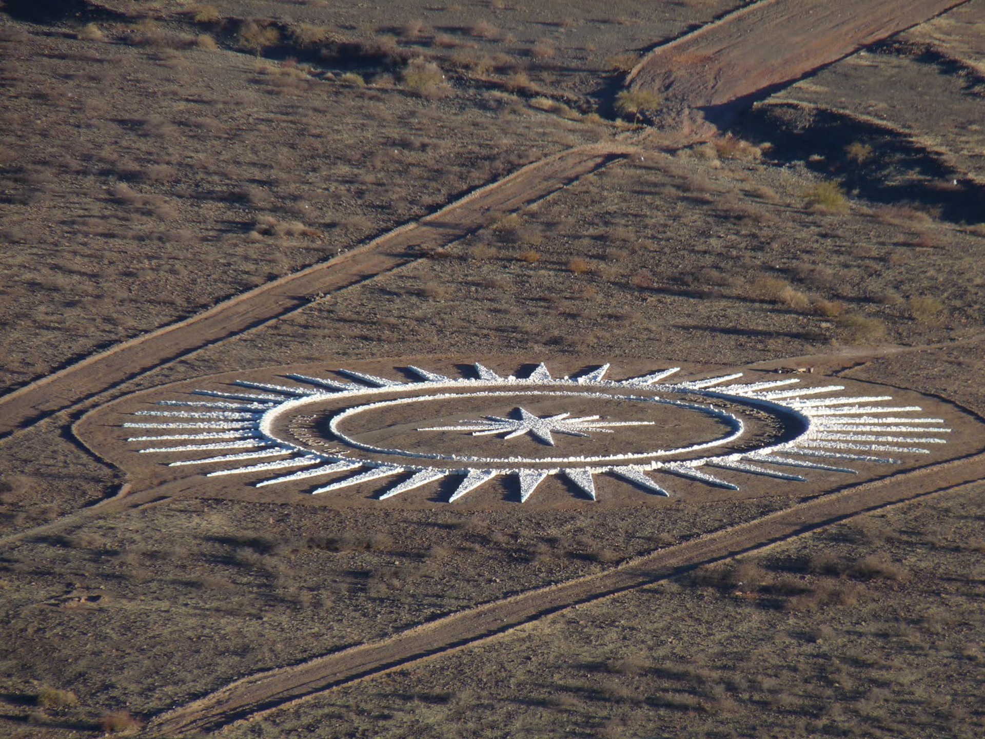 UFO landing strip in Cachi, Argentina